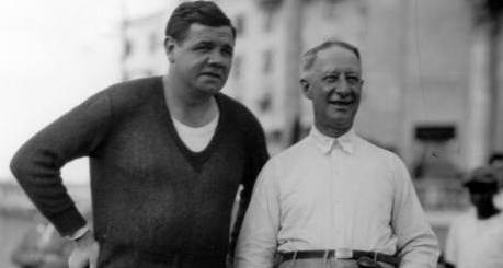 Babe Ruth and former NY Gov. Al Smith at the Biltmore Hotel and Country Club, Coral Gables, Fla. (1930).